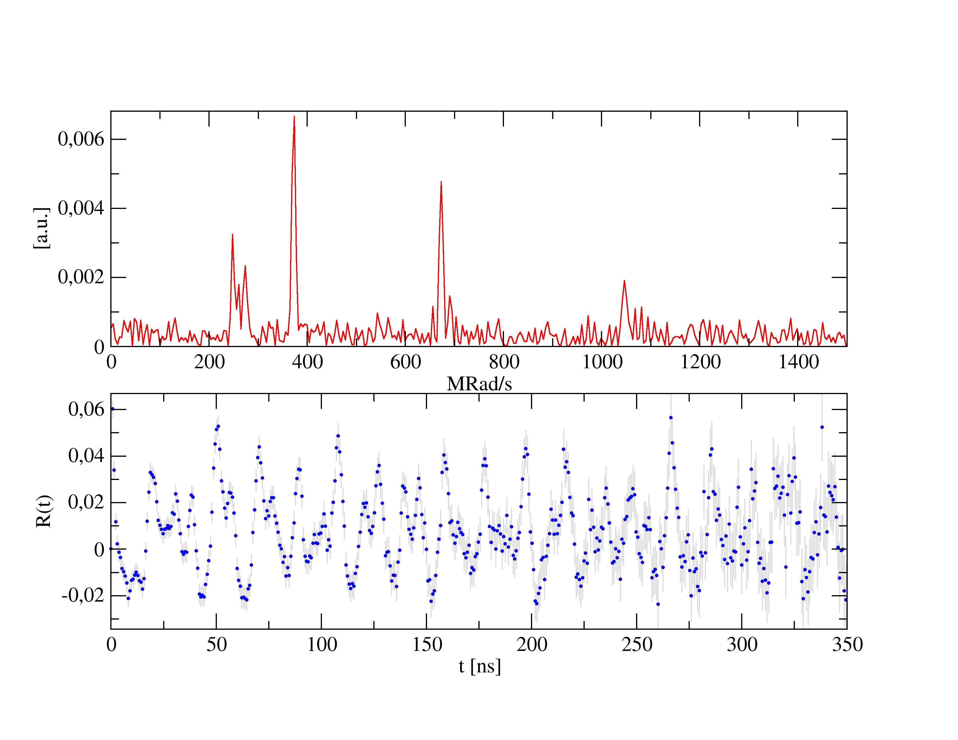 PAC-Spectroscopy: Showing a trypical PAC-spectrum with high compexity.